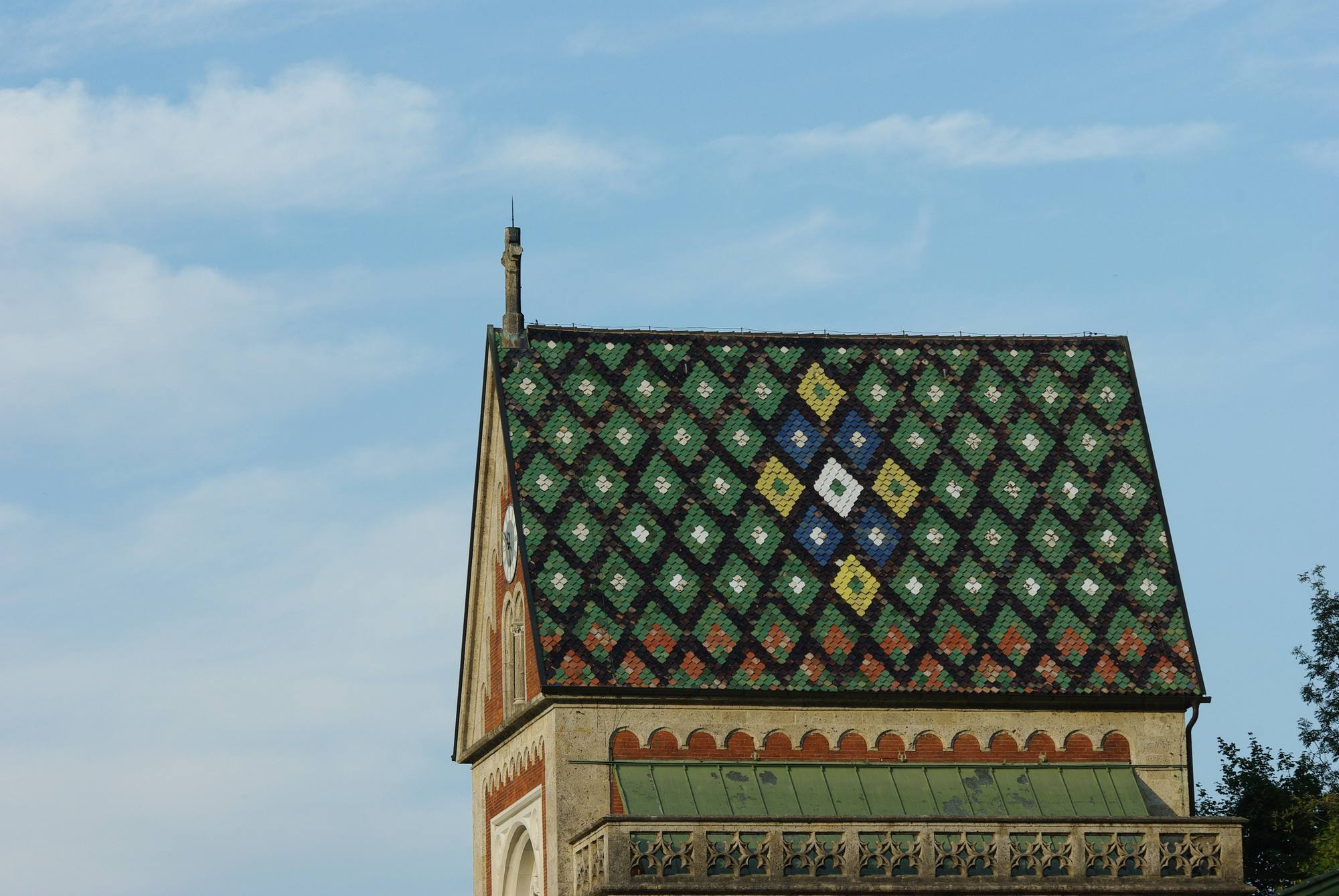 Brunnhauskapelle der Alten Saline in 83435 Bad Reichenhall This is a photograph of an architectural monument.